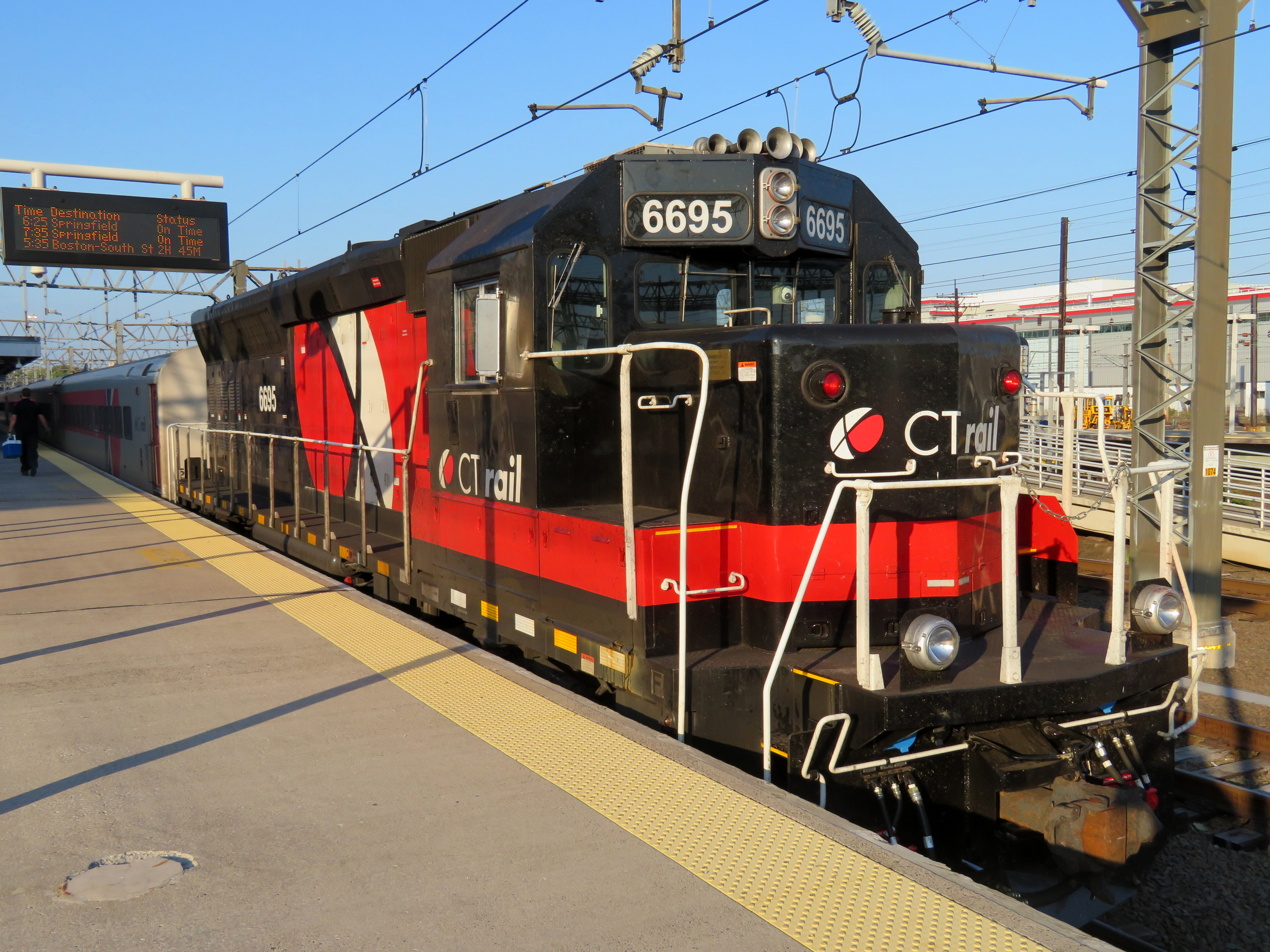 A Hartford Line train at New Haven Union Station in September 2018